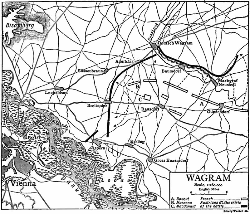 Map of the Wagram battlefield of the Napoleonic Wars from 1911 Encyclopædia Britannica article on Wagram.